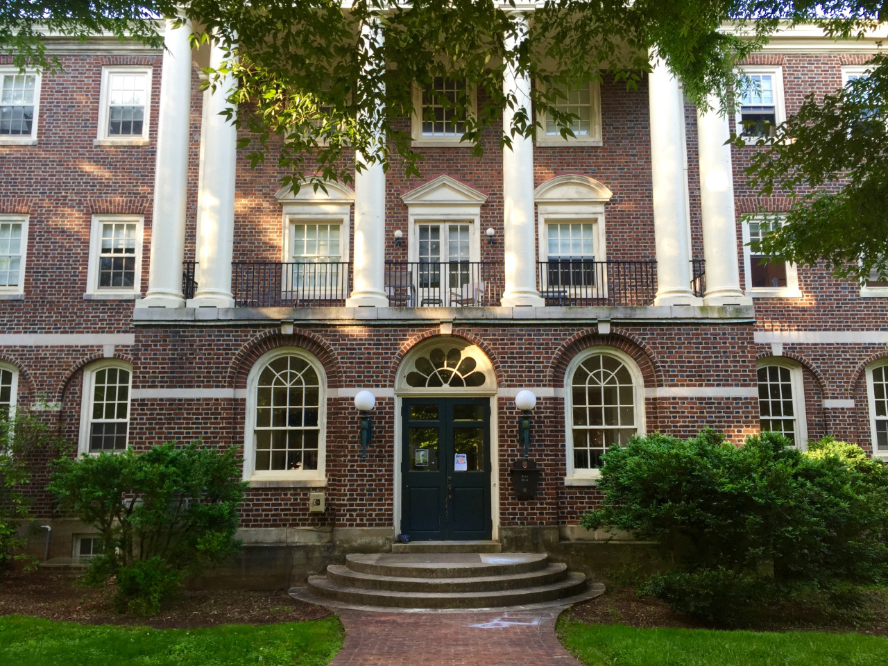 Reid Hall, one of the more popular dorms on campus.